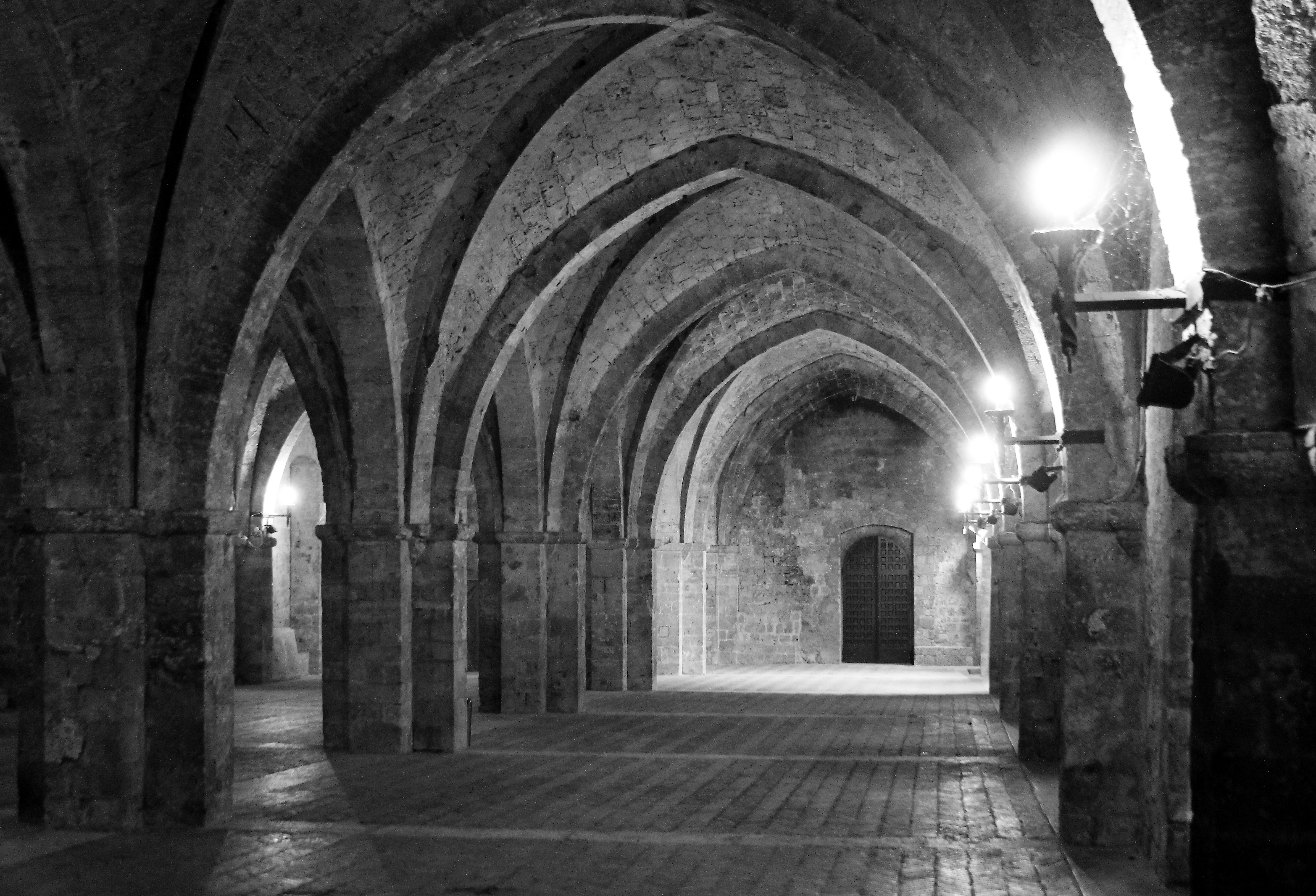 Vaults of Bishop's Palace - Rieti (Lazio, Italy)